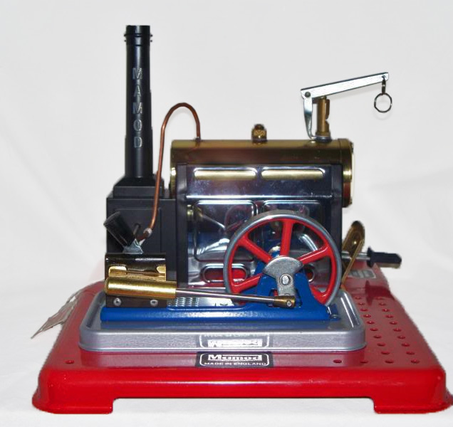 A Mamod SP4 engine. Permission granted by to upload this image.